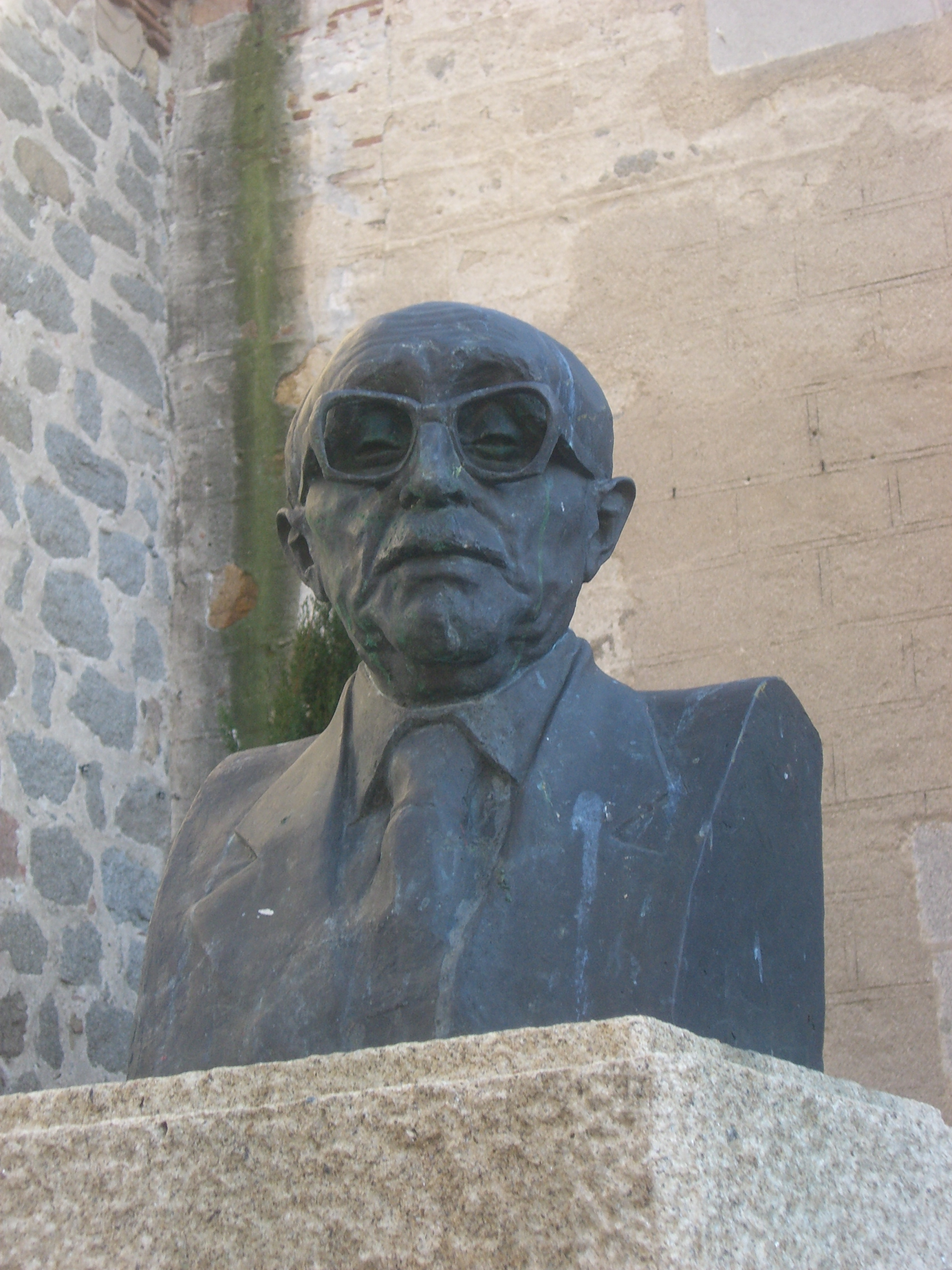 Bust of Claudio Sánchez-Albornoz in Ávila (Spain)